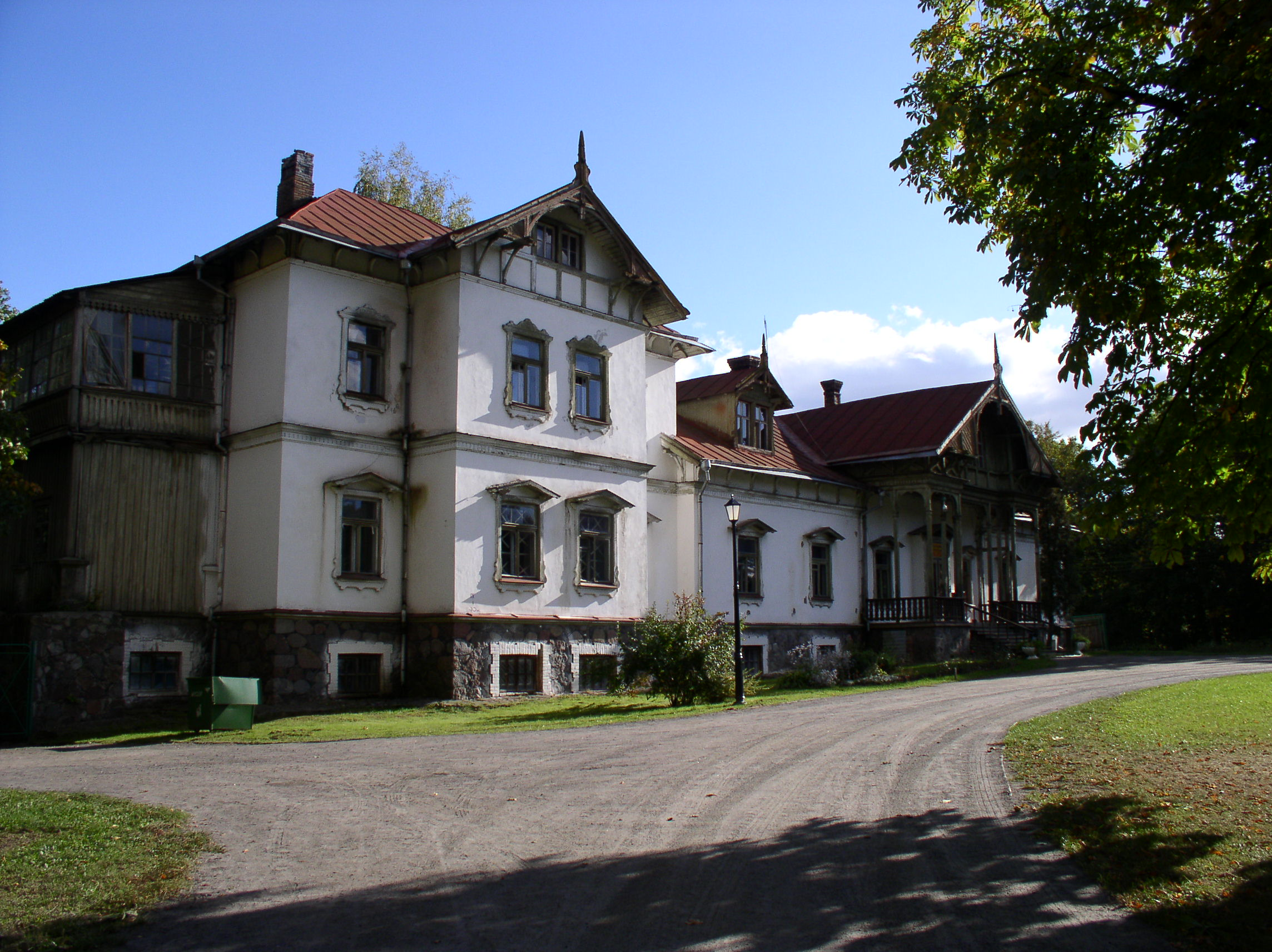 Manor of Lubanski family in Loshytsa. Minsk, Belarus.